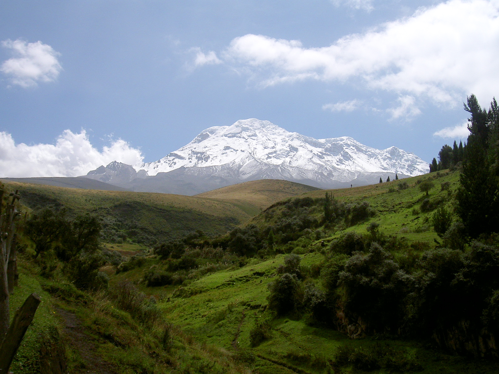 Chimborazo Volcano - Ecuador